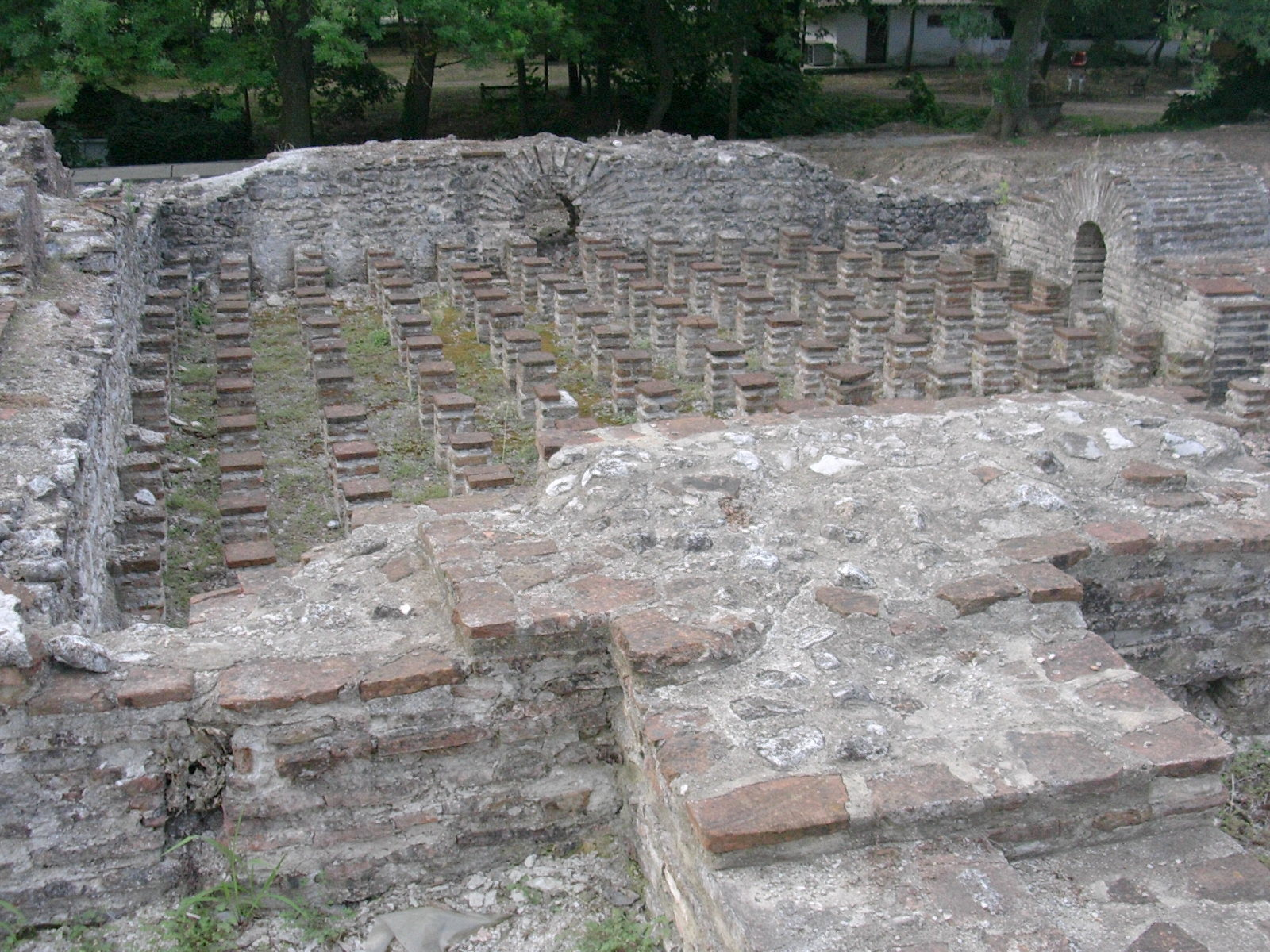 Roman public baths in Dion, Greece, view of under-floor heating system